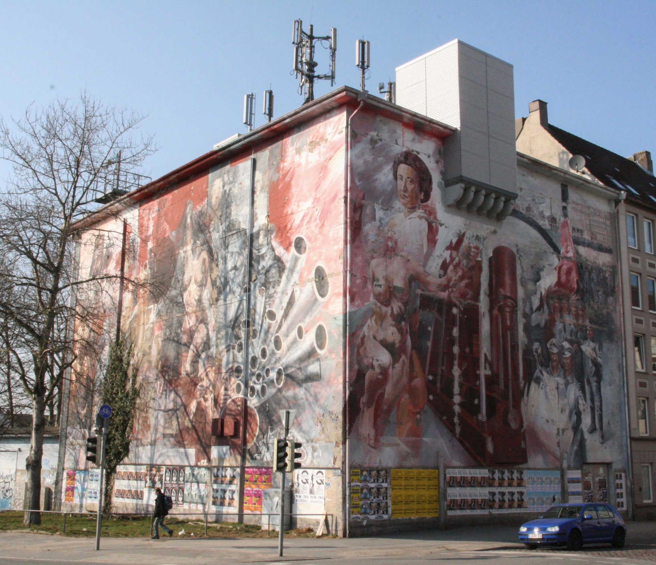 Das Revolutionsgemälde auf dem Iltisbunker wurde 1989 im Rahmen einer ABM-Maßnahme geschaffen. Die Leitung des Projekts hatte der Künstler Shahin Charmi.